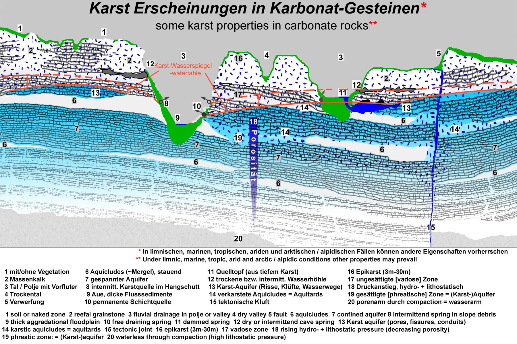 karst-phenomena of calcium carbonate limestone in temperate climate.